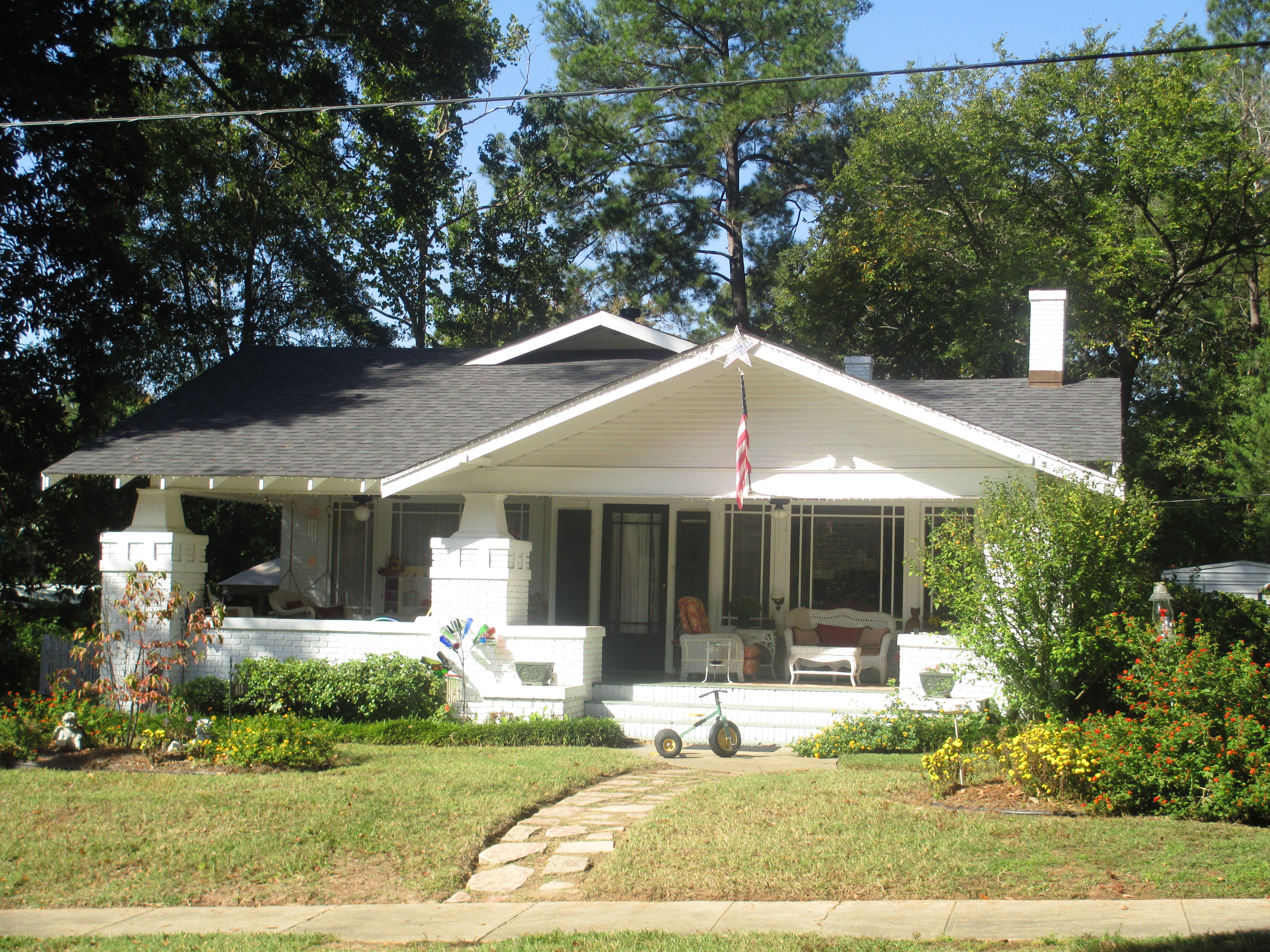 I took photo of Robert F. Kennon house on Jefferson Street in Minden, LA.